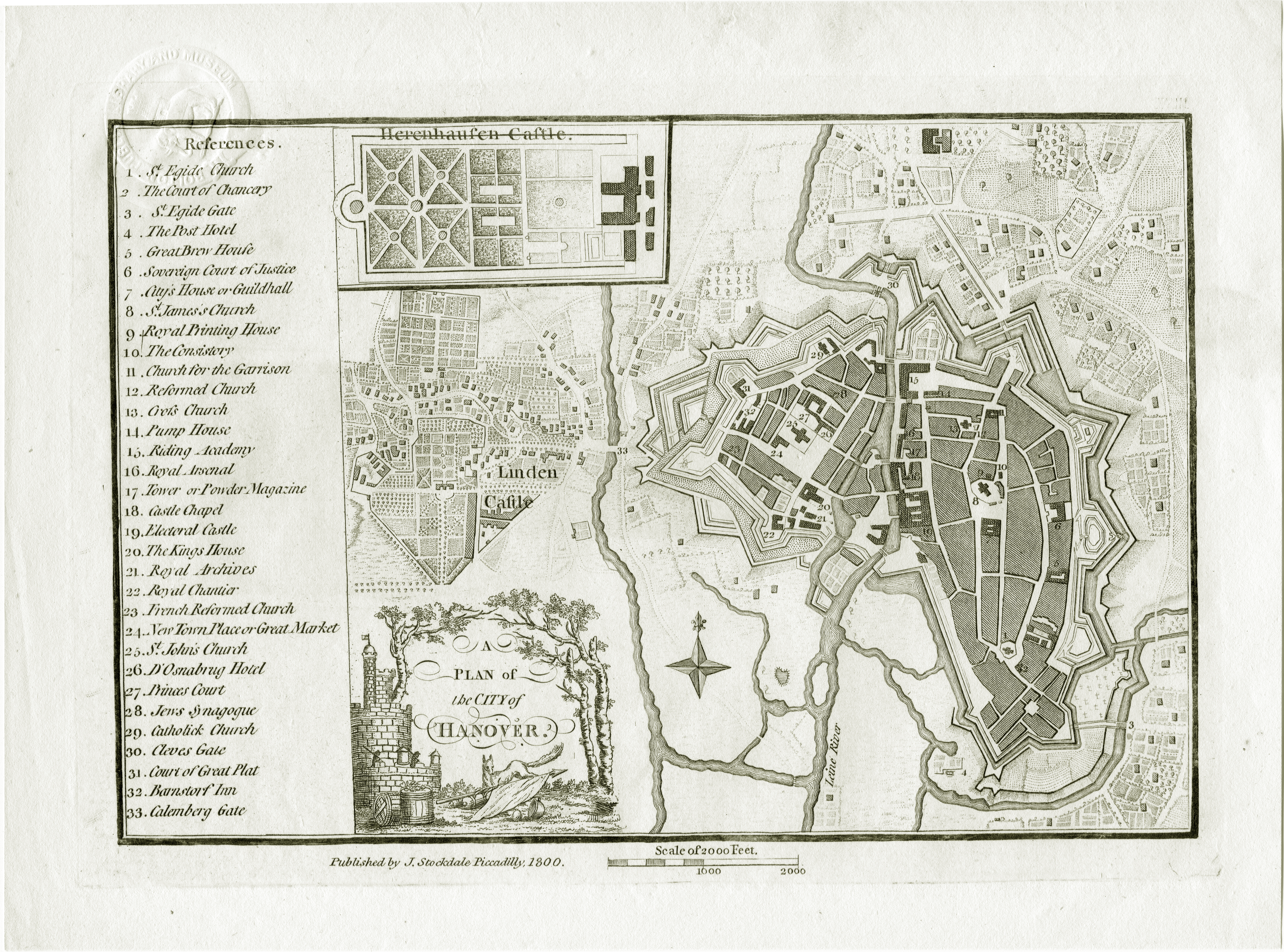 Map of the cities of Hanover and Calenberger Neustadt, also the village Linden and The Great Garden in Herrenhausen; copper engraving (No.?) "XVIII" (visible above the upper right of the frame); up to now unknown drawer and furthermore unknown copper engraver; publisher John Stockdale Piccadilly, 1800. Even if the map ist more than 100 years public domain the Hebrew University of Jerusalem which also presents the plan online assigned it with its copyright (please see [1])